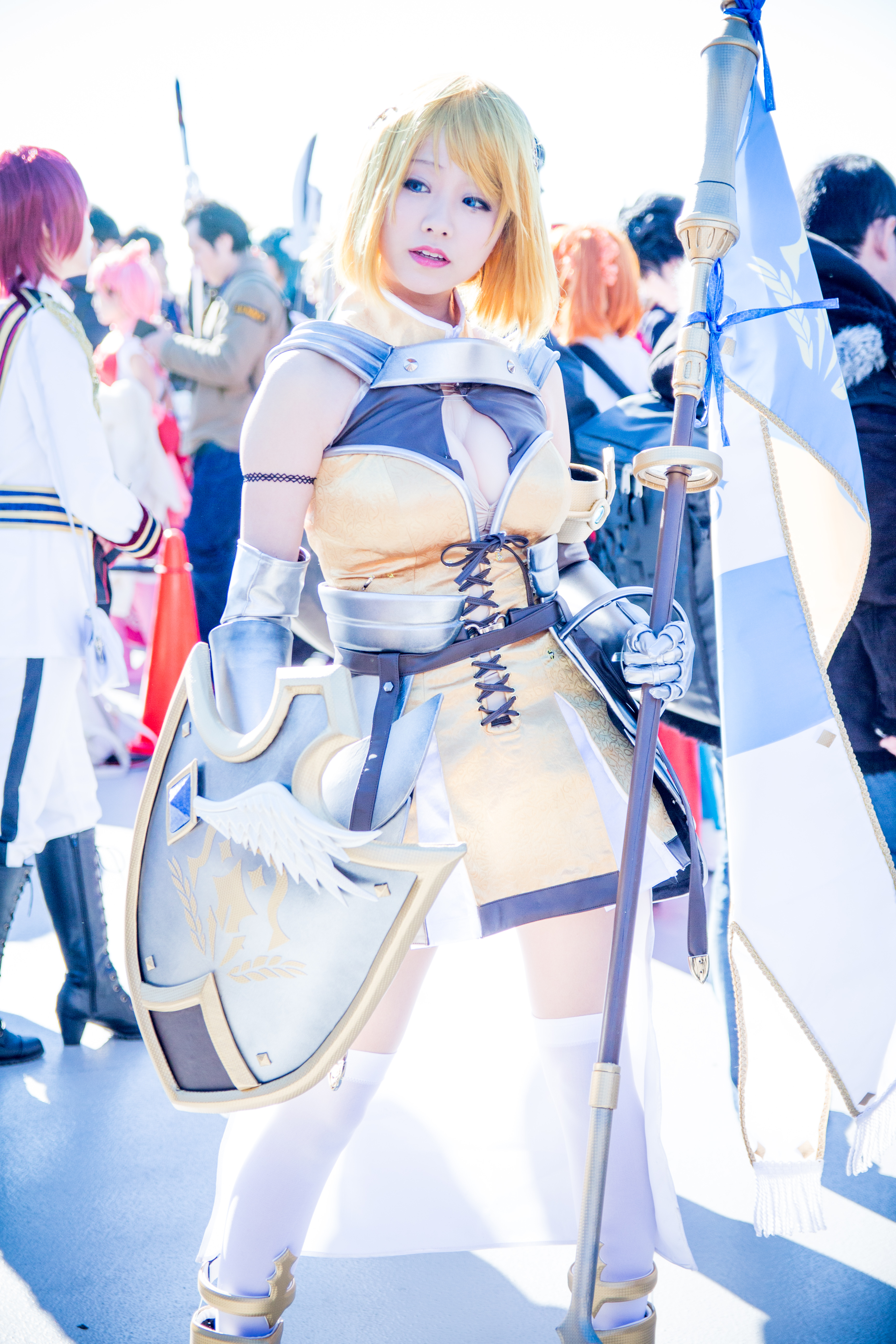 Cosplay of Jeanne d'Arc from the mobile game #COMPASS (COMbat Providence AnalysiS System) at Comic Market 91